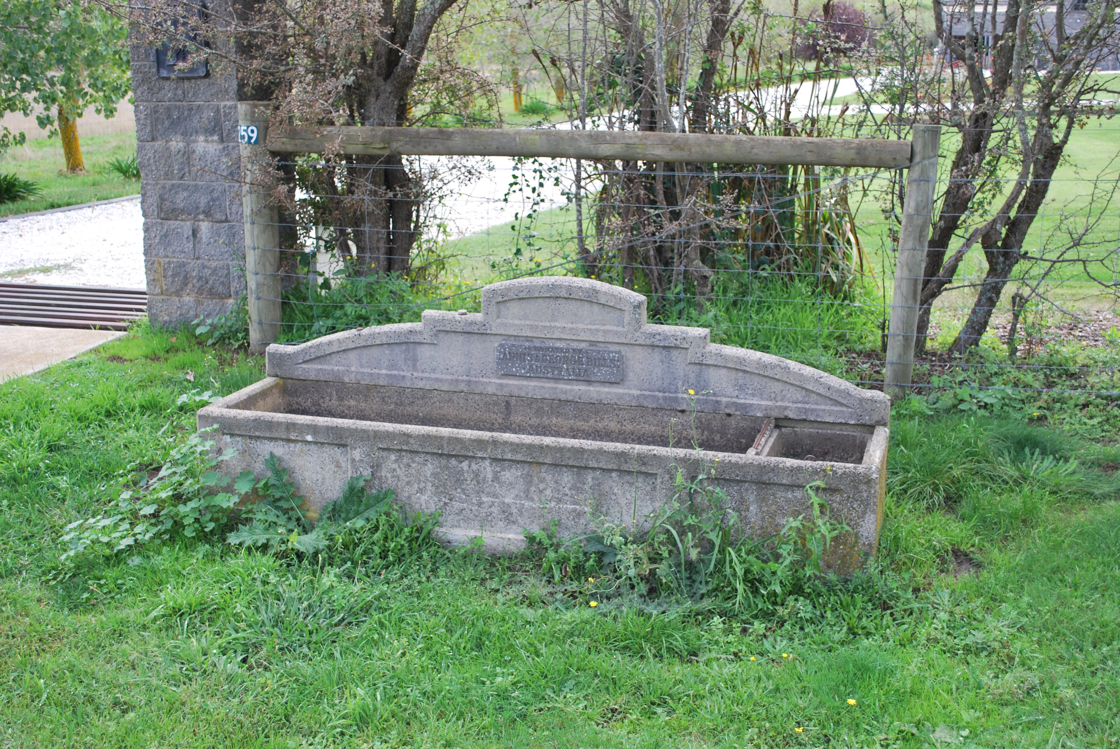 Bills horse trough in Buninyong, Victoria